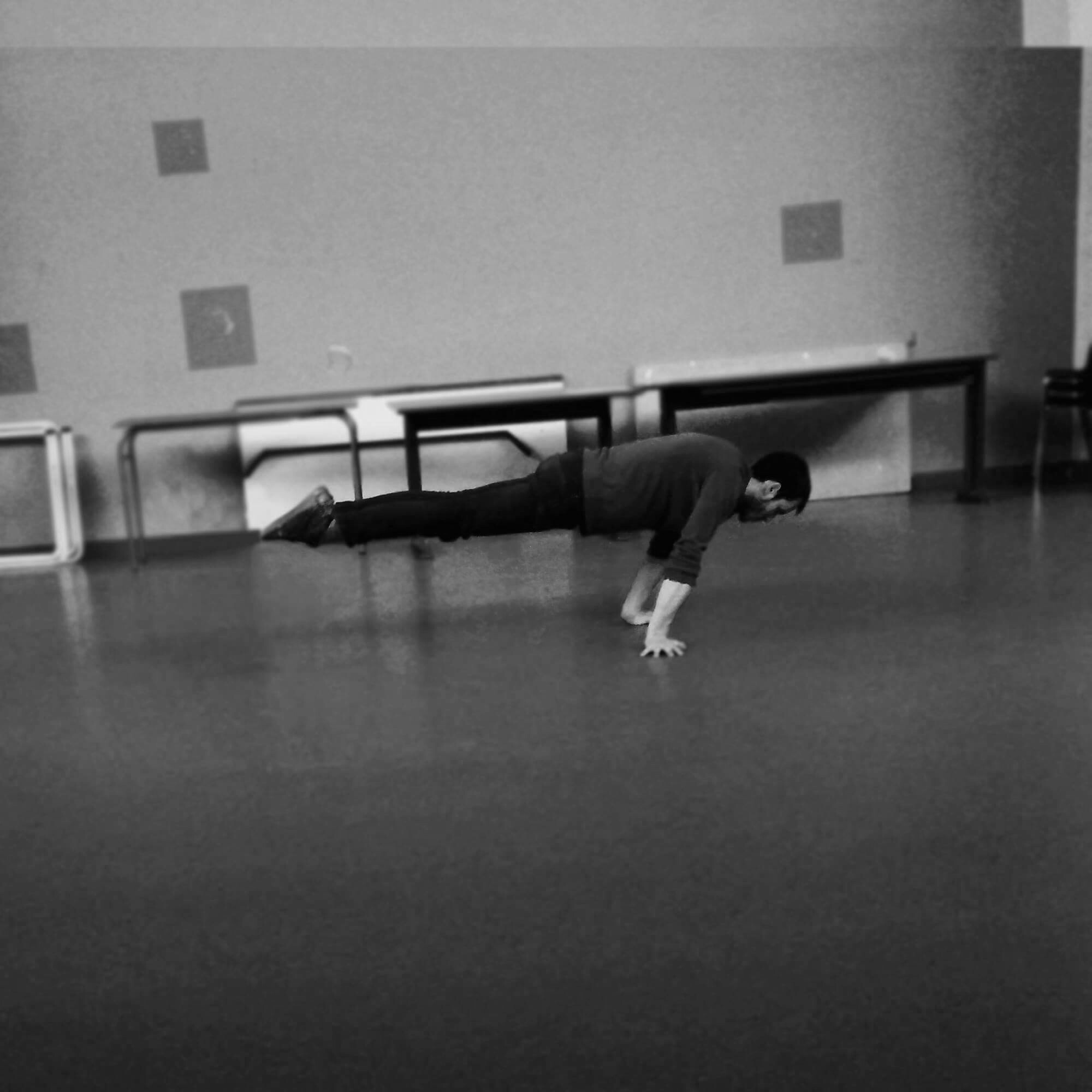 Full planche